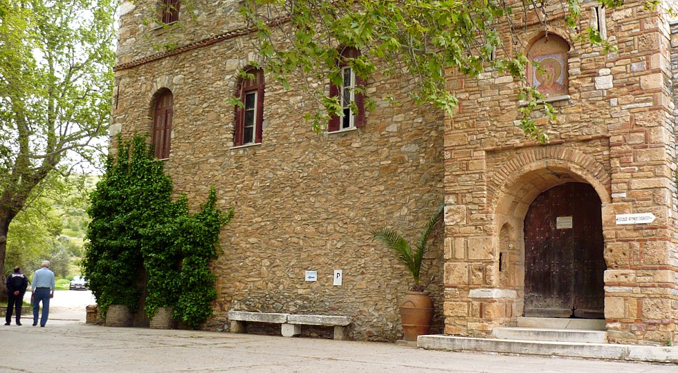 The above picture depicts the Penteli Monastery entrance.